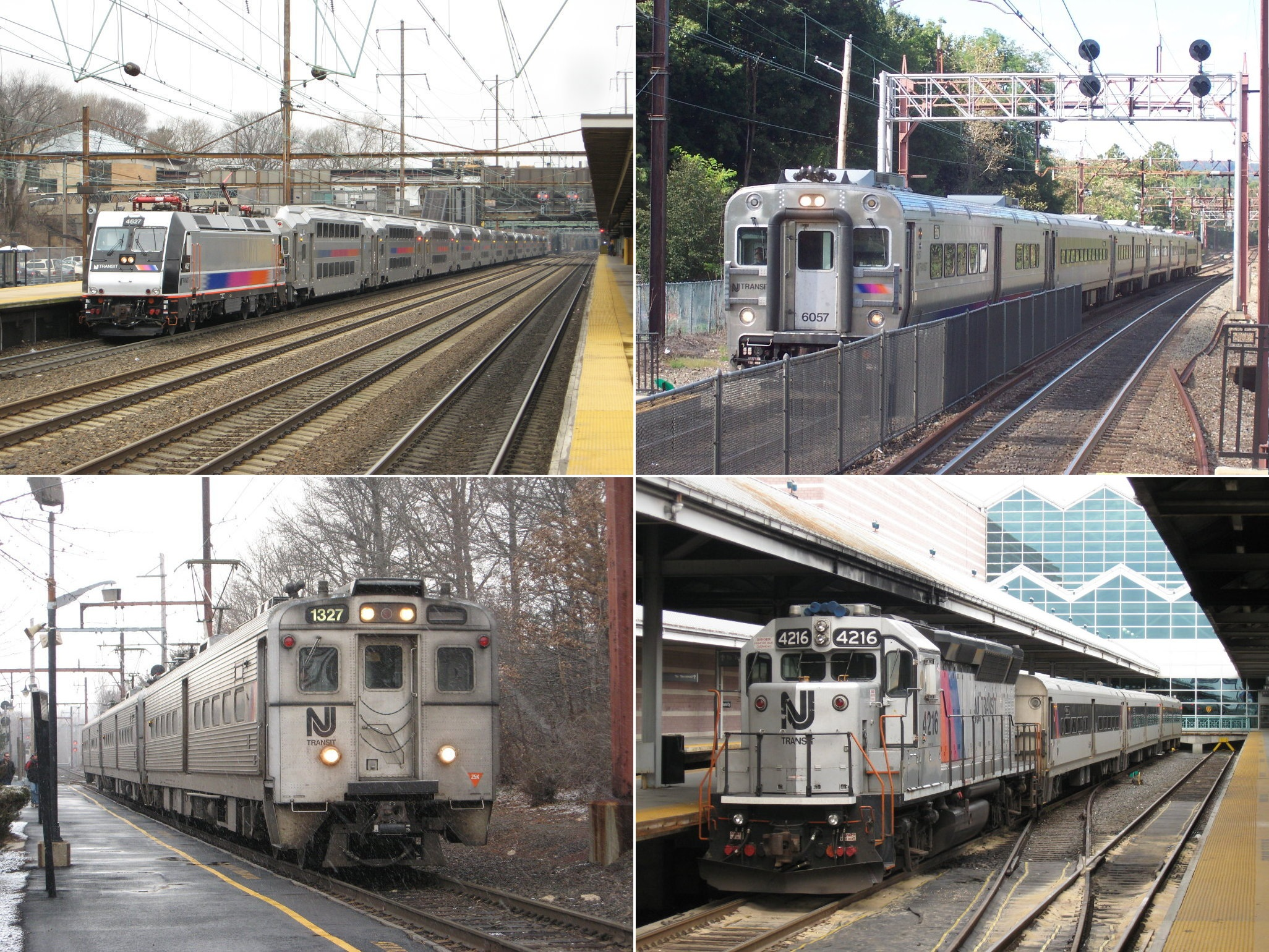 Sample of New Jersey Transit services. See pictures below for details.